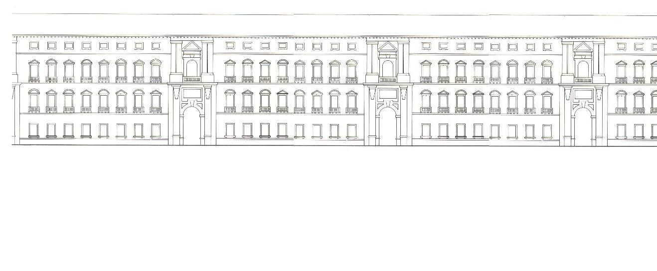 own work palace of Simone Gulli